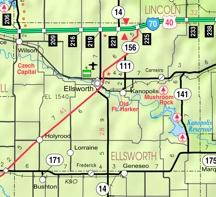 This map of Ellsworth County, Kansas, USA, is copied at a resolution of 300 pixels/inch from the original PDF file.